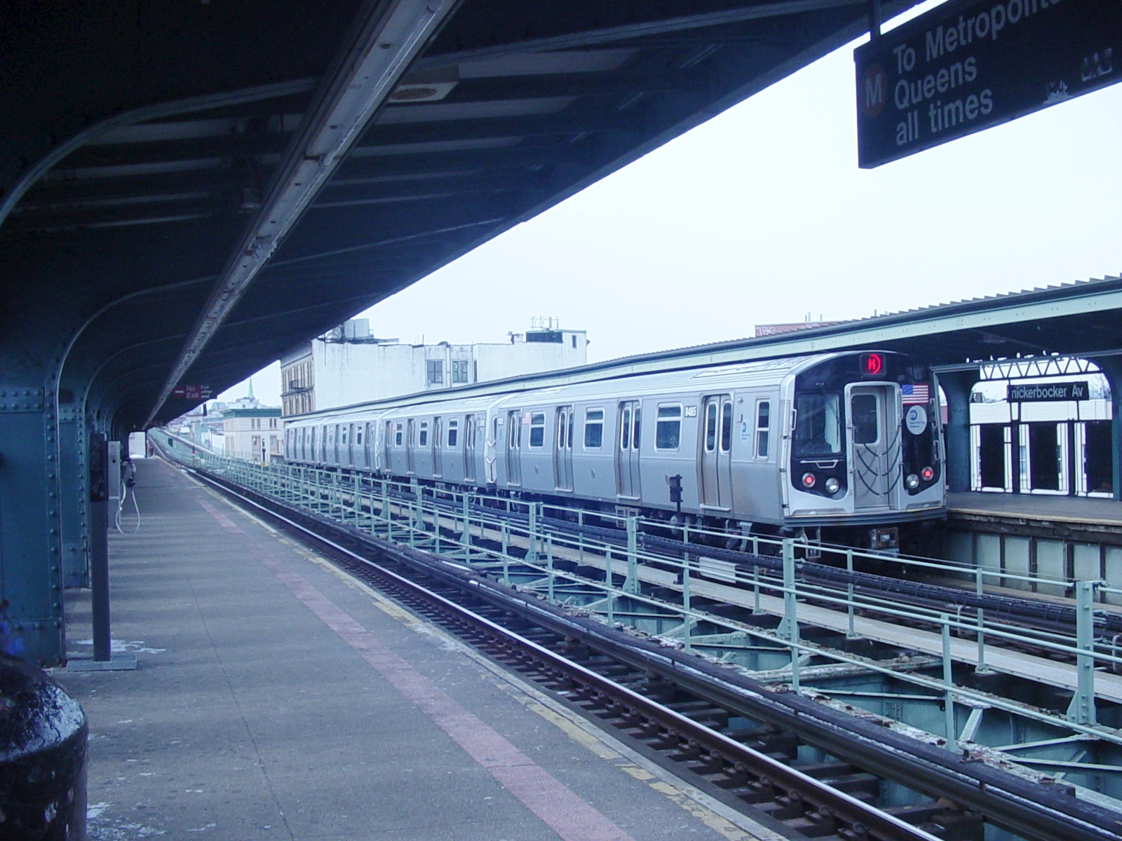 M (New York City Subway service) 4-car shuttle at Knickerbocker Avenue (BMT Myrtle Avenue Line) station, view from northbound platform